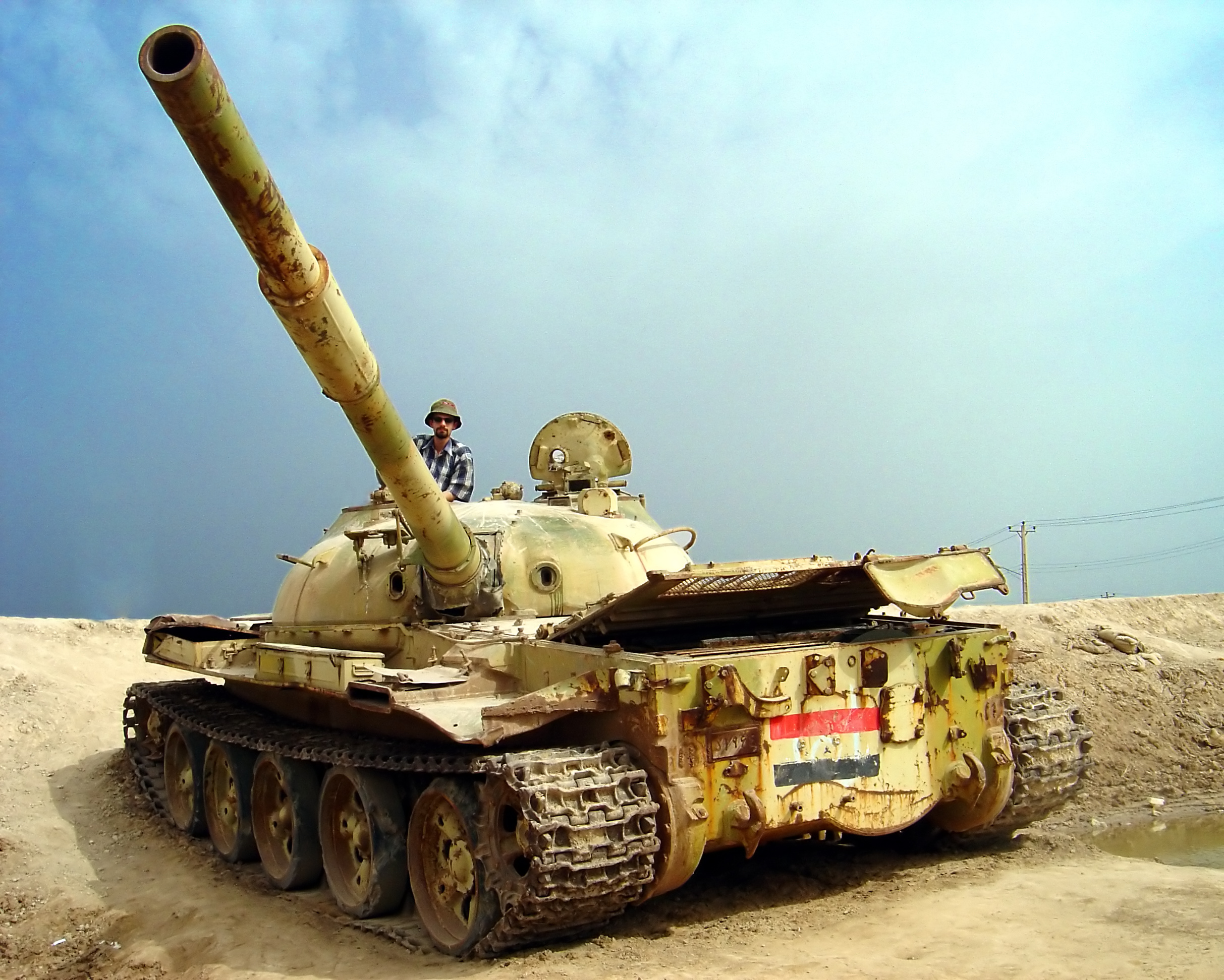 Iranian posing on an Iraqi T-62 tank in Khorramshahr, Khuzestan in Iran, just across the border from Iraq.